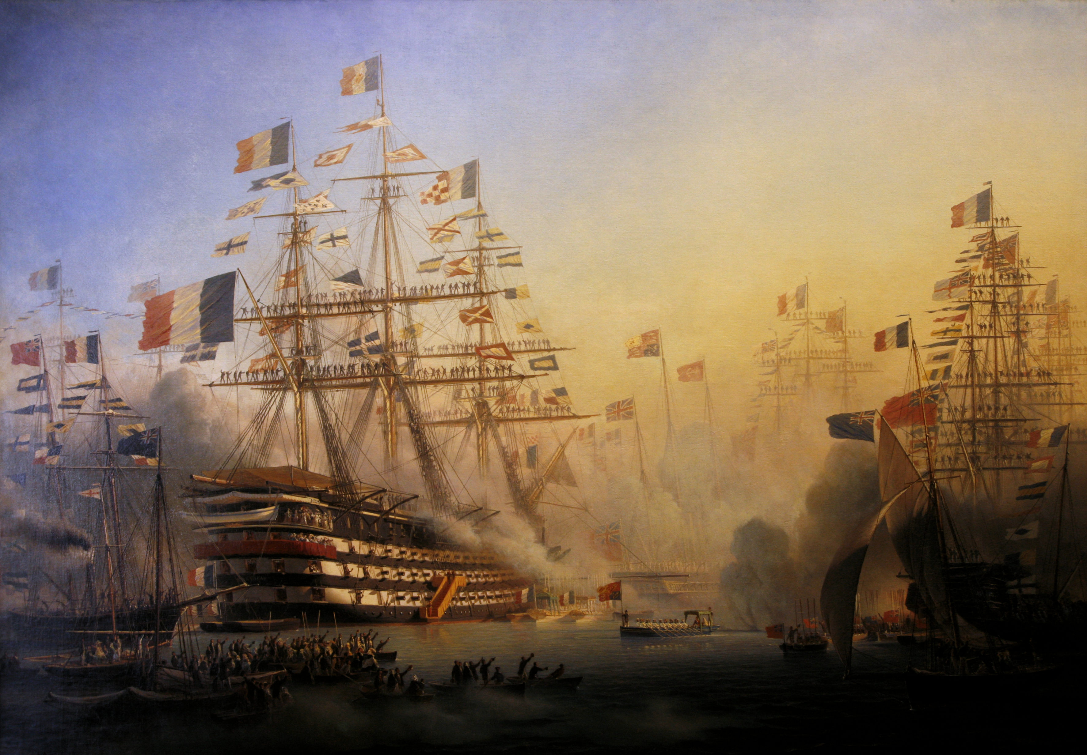 Artist Antoine Léon Morel-Fatio (1810–1871) Alternative names Antoine Morel-FatioDescriptionFrench marine painterDate of birth/death 17 January 1810 2 March 1871 Location of birth/death Rouen ParisWork period1827-1871Work location Italy, Middle East, FranceAuthority control : Q3271211 VIAF: 61938920 ISNI: 0000 0001 2013 0185 ULAN: 500000735 LCCN: n99038575 GND: 1011911418 WorldCat artist QS:P170,Q3271211Description Queen Victoria in Cherbourg, 6 August 1858Collection Musée national de la Marine Native nameMusée national de la MarineLocationParisCoordinates48° 51′ 43″ N, 2° 17′ 15″ E Established1827Web page control : Q1286709 VIAF: 19144648200974718522 ISNI: 0000 0001 2259 2914 LCCN: n50055356 Museofile: M5026 WorldCat institution QS:P195,Q1286709Accession number 9 OA 9Source/Photographer Med Queen Victoria in Cherbourg, 6 August 1858